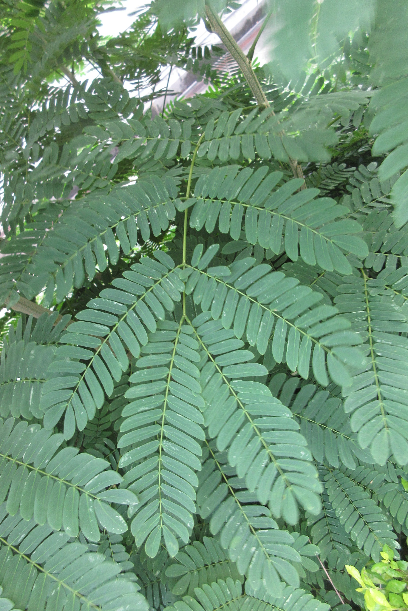 HK 上水 Sheung Shui 彩園路 Choi Yuen Road 鳳凰木 Delonix regia green pinnate compound leaves in Sept 2017